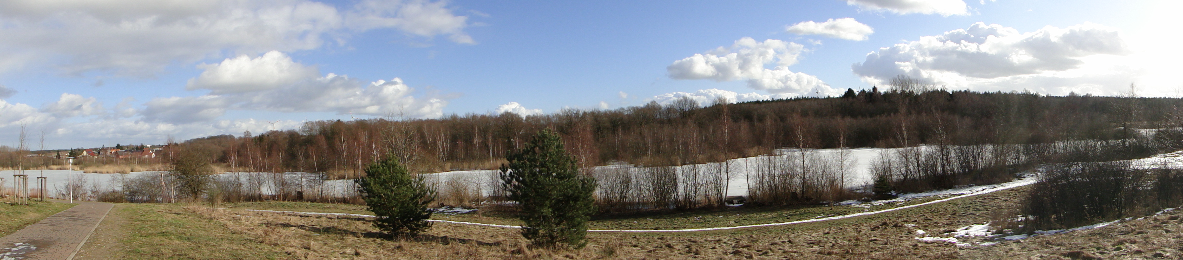 Pond Großer Teich in Selmsdorf, disctrict Nordwestmecklenburg, Mecklenburg-Vorpommern, Germany